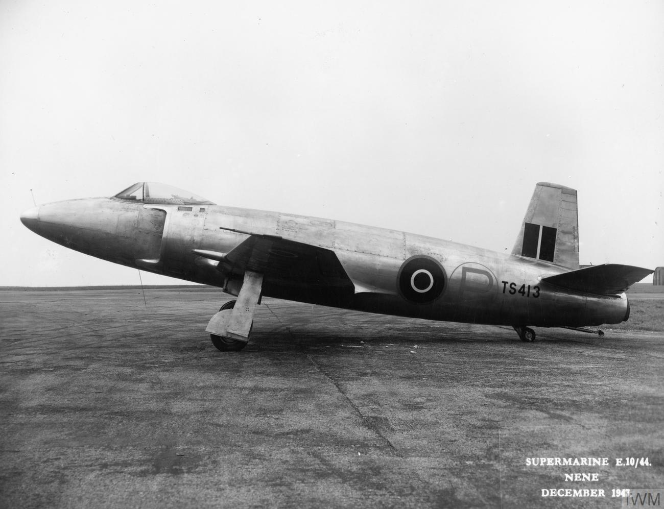 The second Supermarine Type 398 Attacker (serial TS413) in flight. It made its first flight on 17 June 1947. TS413 powered by a Rolls Royce Nene 3 Mk.101 turbojet (22.7 kN thrust). It featured a Martin-Baker Mark 1 type ejection seat, a yoke-style arresting hook, long-stroke landing gear, attachments for a catapult strop in the wheel wells, provisions for rocket-assisted takeoff gear (RATOG), and lift dumpers. TS413 already crashed on 17 September 1947 near Bulford Village near Amesbury on take-off from RAF Boscombe Down.